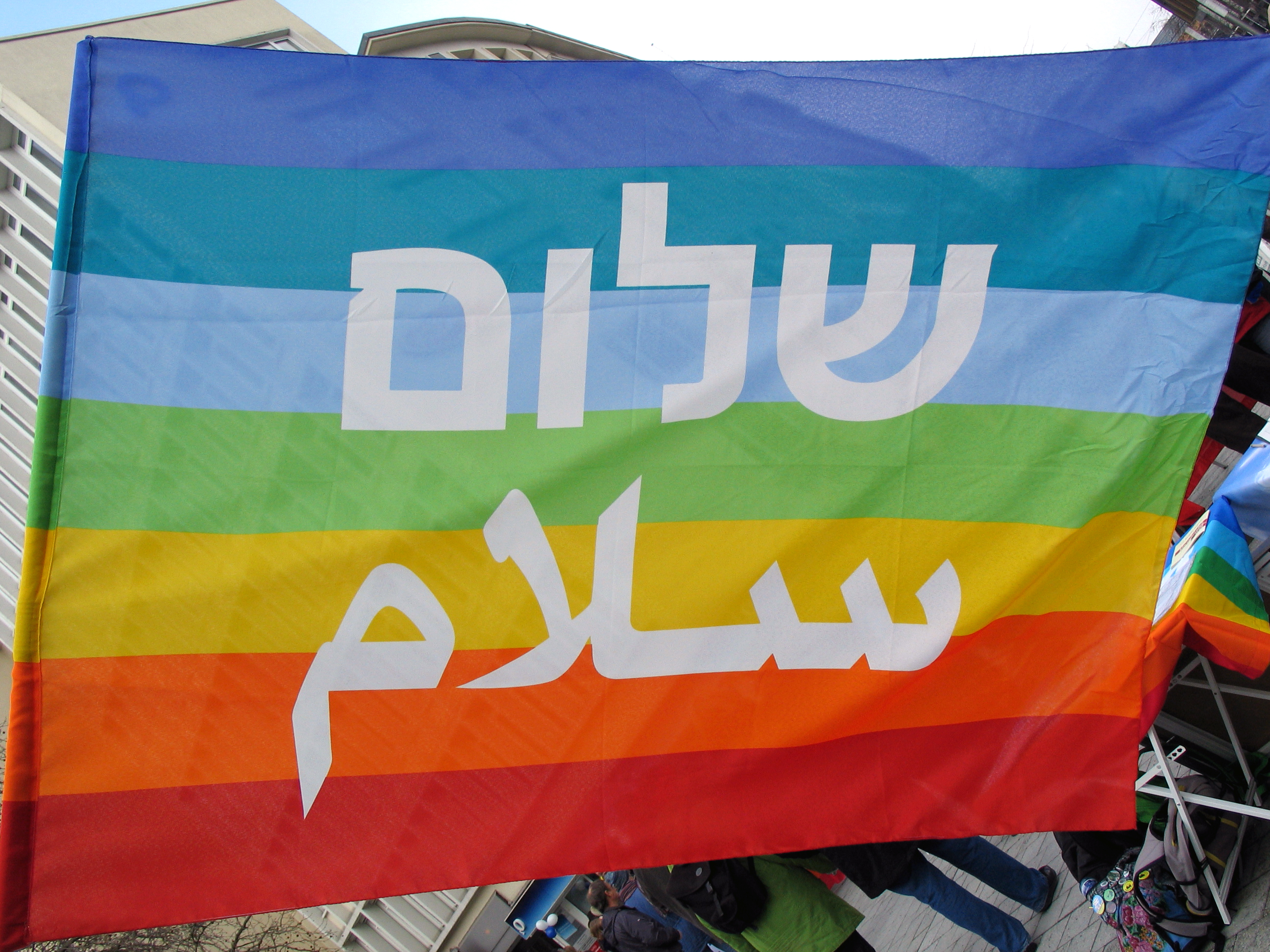 Peace ...